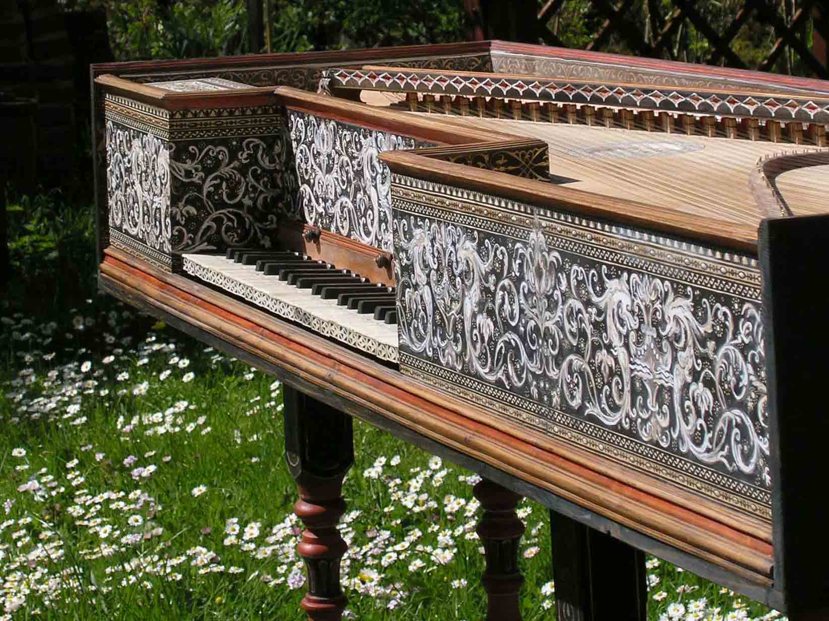 Virginals after Artus Gheerdinck (1605) of Georg Ott.